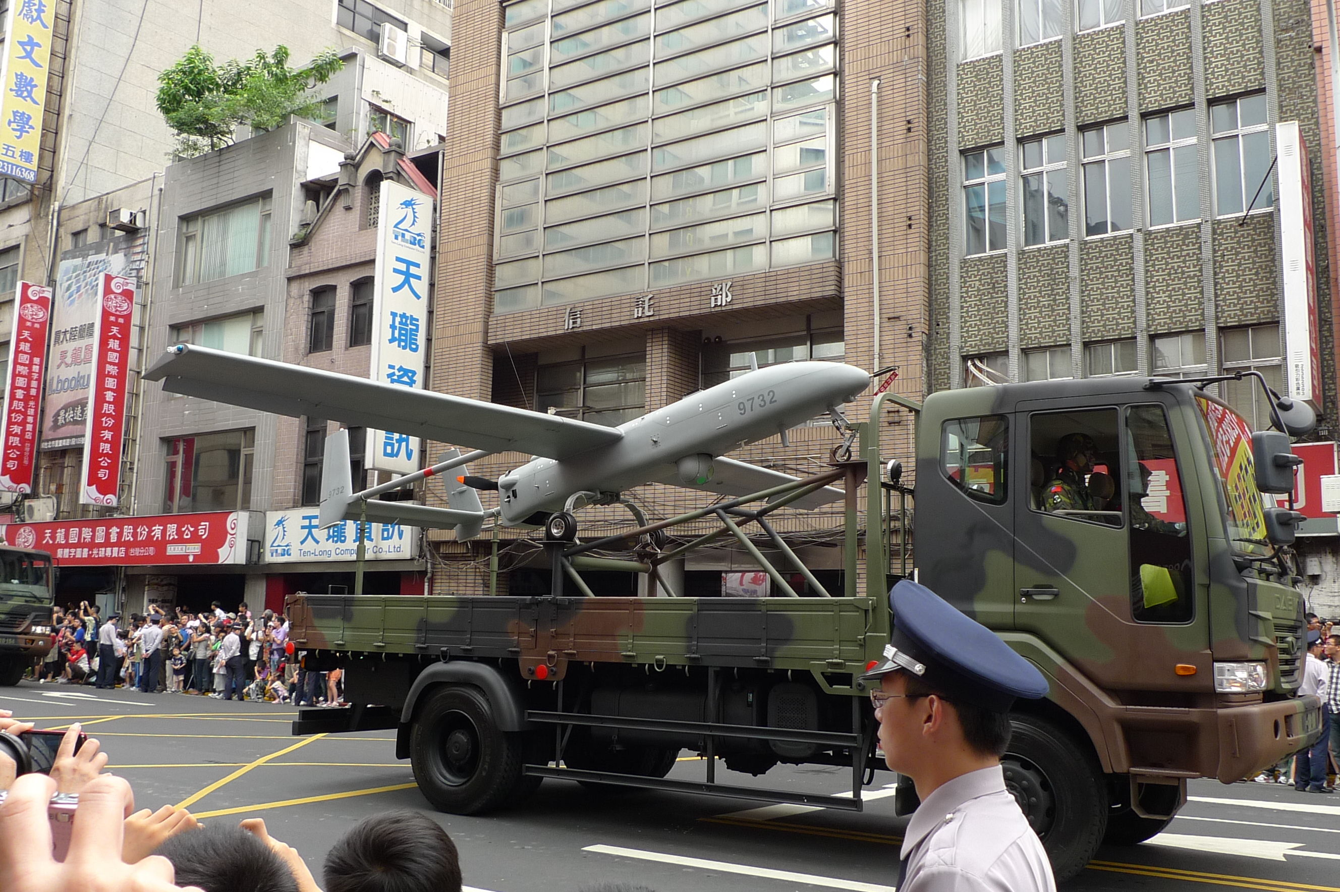 October 10 2011 Taiwan celebrates 100th anniversary.